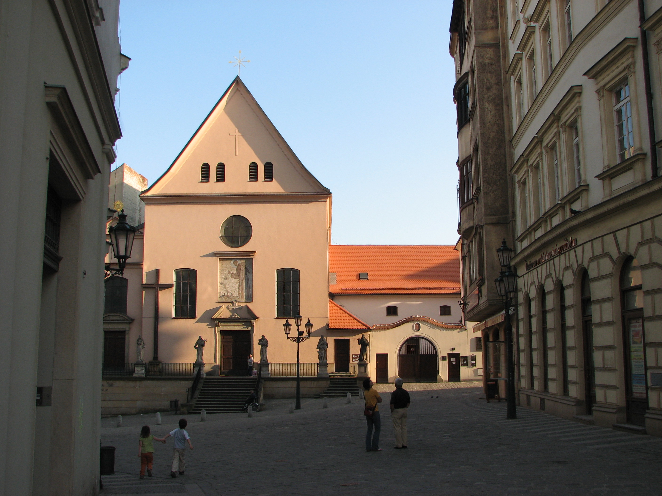 Church of Finding of the Holy Cross in Brno